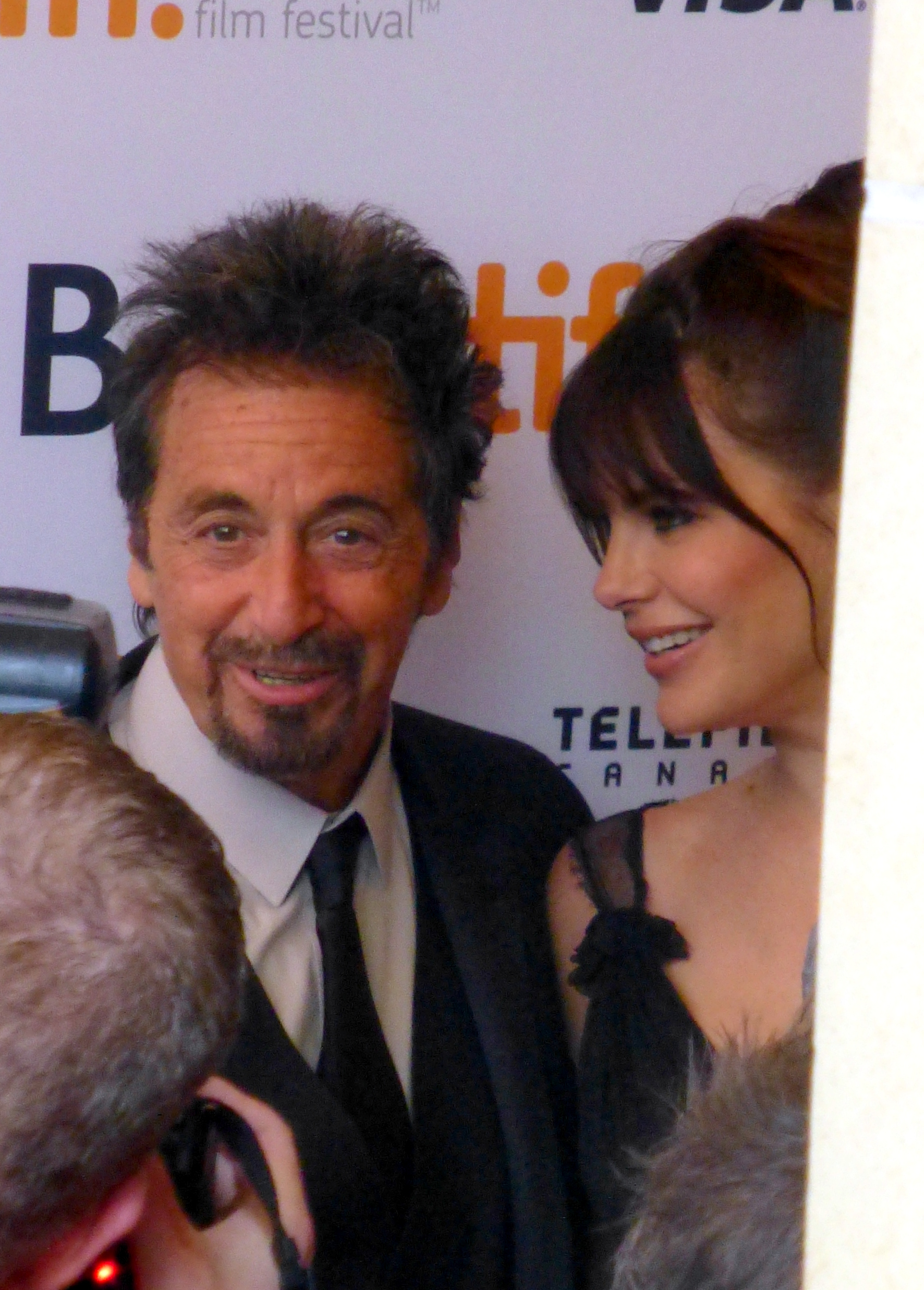 Al Pacino and Lucila Sola at the premiere of Manglehorn, 2014 Toronto Film Festival